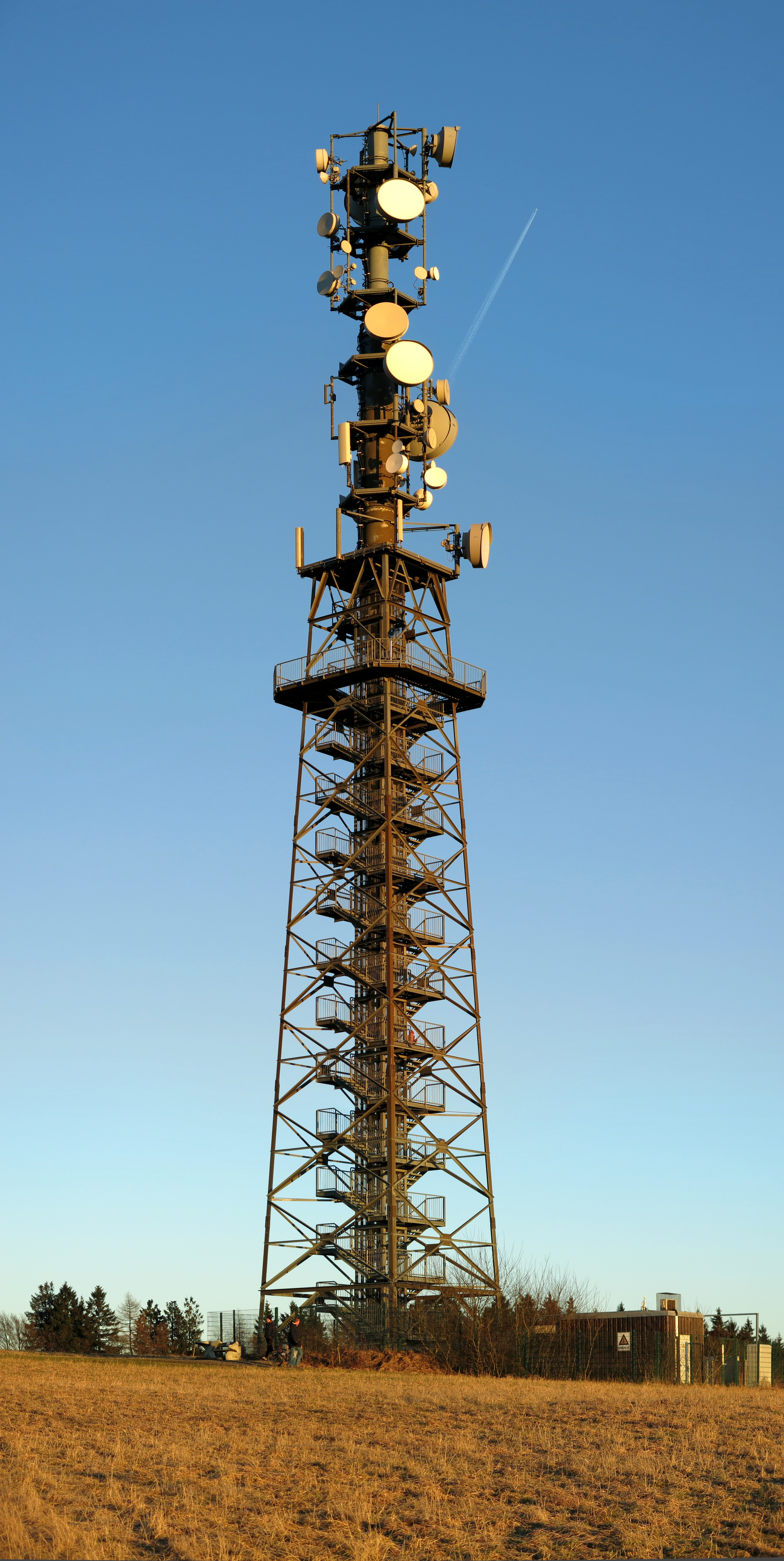 Tower on Schomberg (648 m) near Wildwiese in the Lenne Mountains.